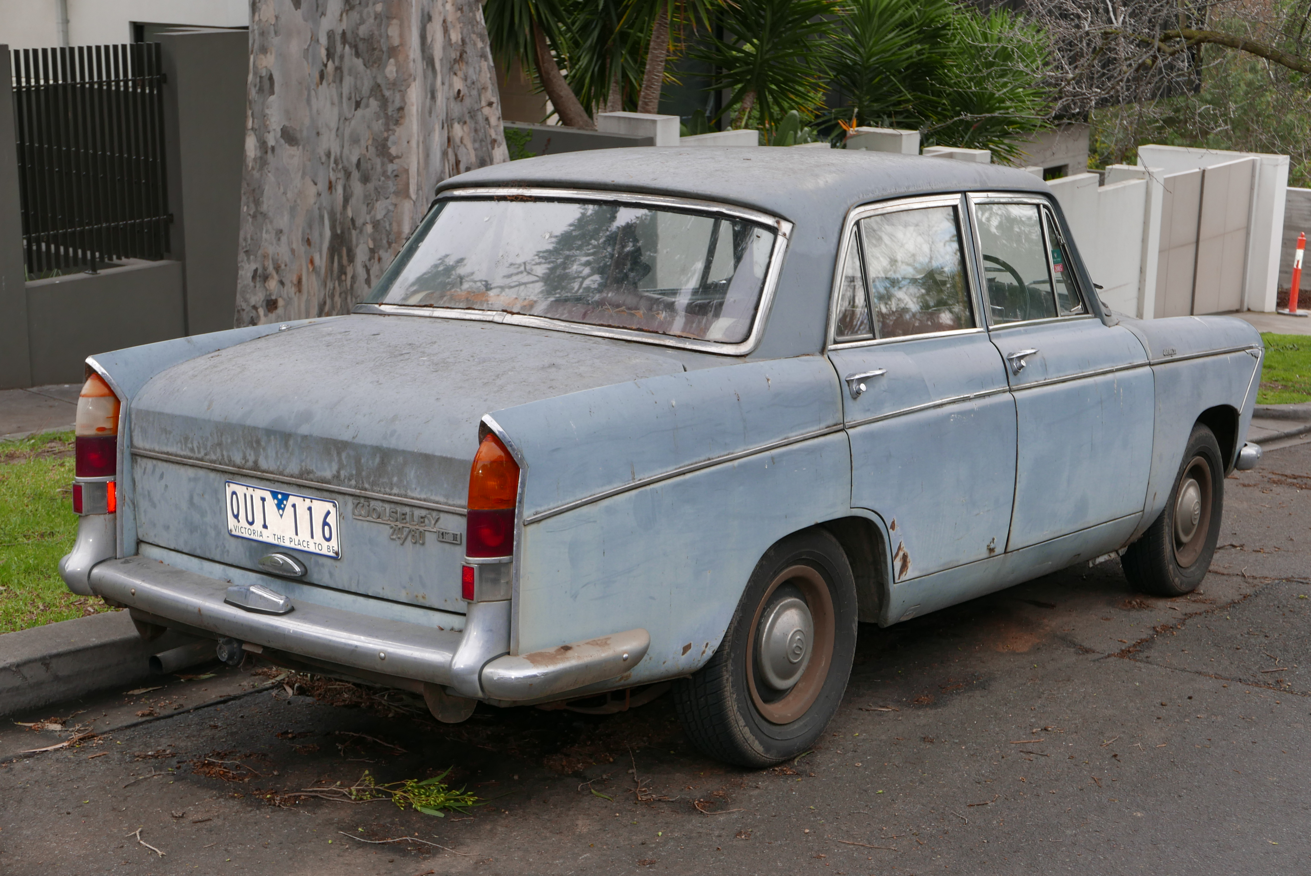 1964 Wolseley 24/80 (Mark II) sedan. Photographed in Hawthorn, Victoria, Australia. Vehicle registration enquiry results Jurisdiction Victoria Registration QUI116 Chassis code 860 Engine code 24YAH6502 Compliance date 1964-01 Year of manufacture 1964